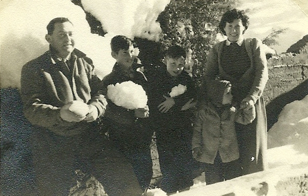 Snowing in Haifa in 1950 - 47 Hess ST.